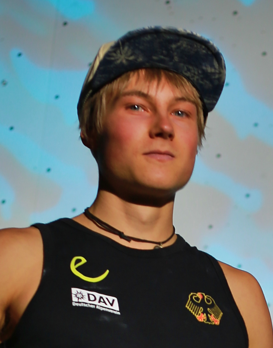 Finalists of IFSC Climbing World Championships Innsbruck 2018 Final MAN lead